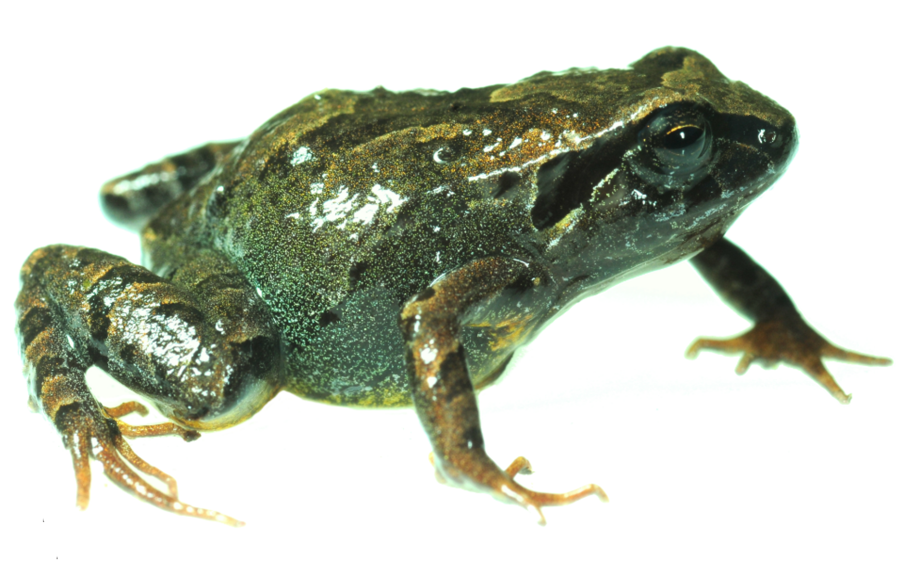 Psychrophrynella chirihampatu paratype